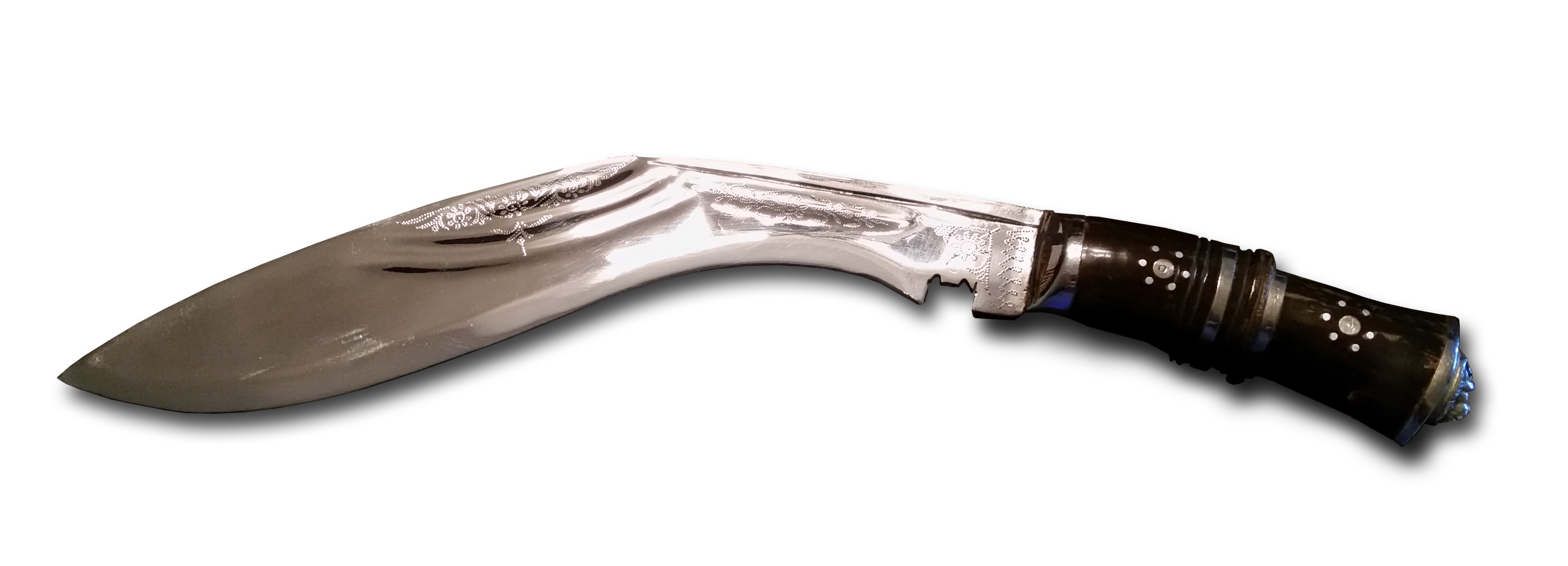 An example of a polished kukri blade.